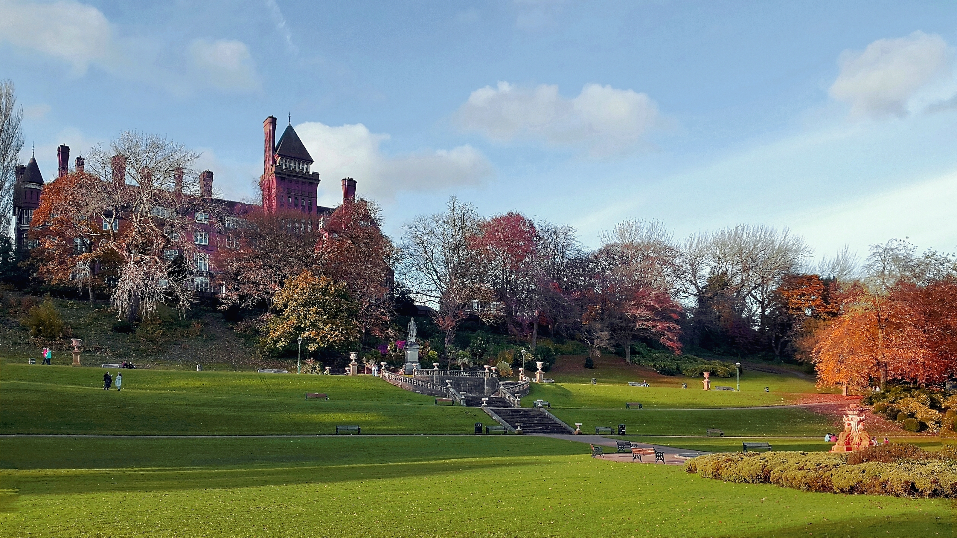 The old Park Hotel overlooking Miller Park, Preston, in autumn.